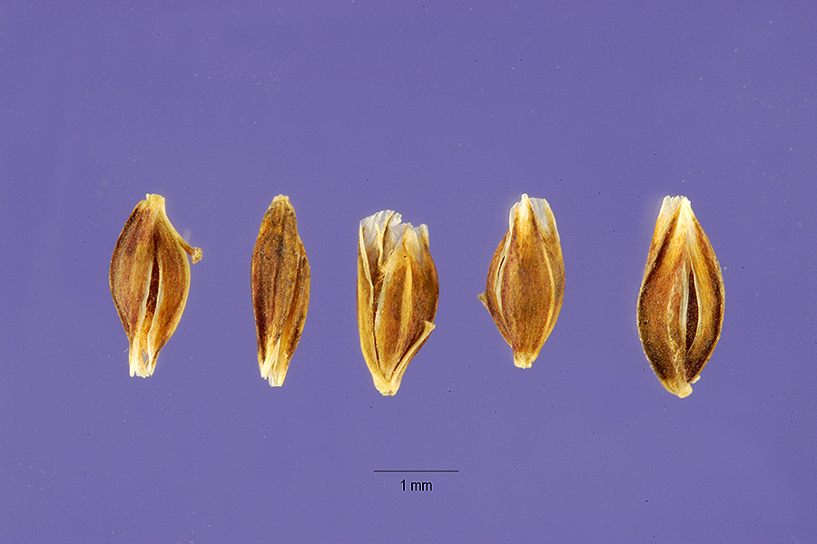 Seeds of Catabrosa aquatica